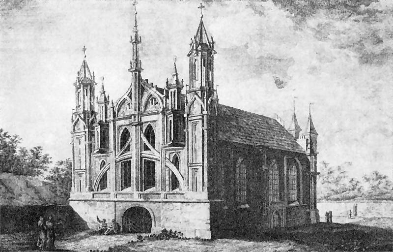 St. Anne's Church in Vilnius, Lithuania